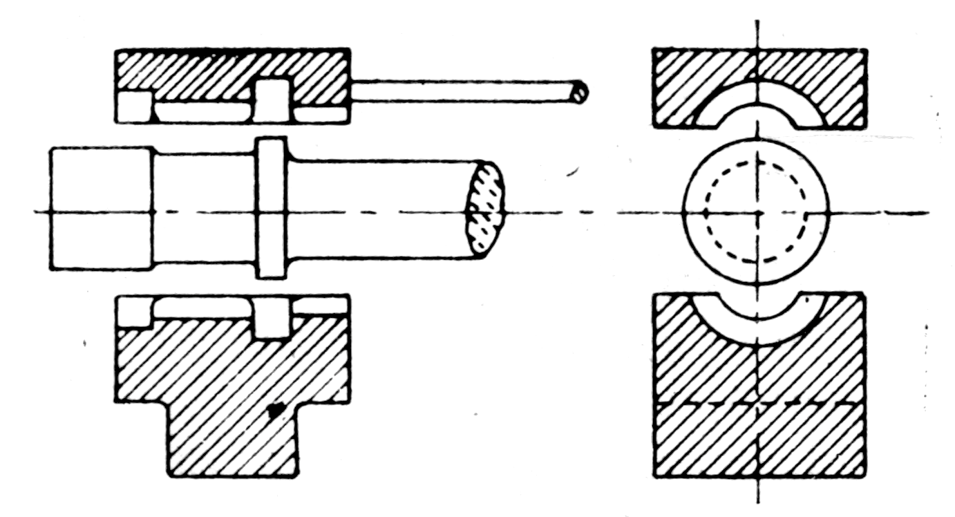 Blocks for forging straight axles